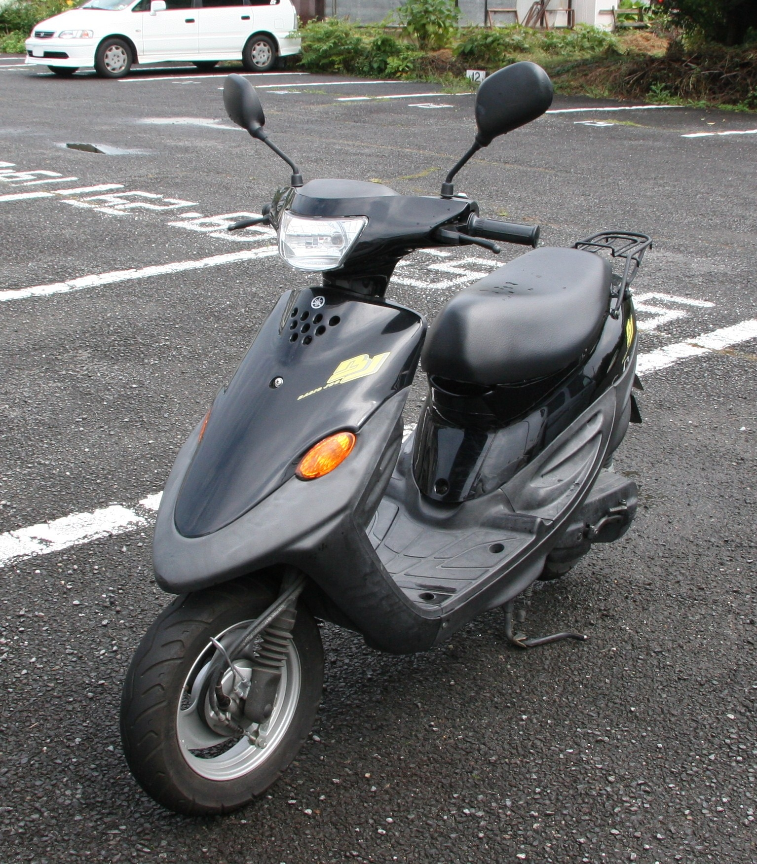 Yamaha BJ